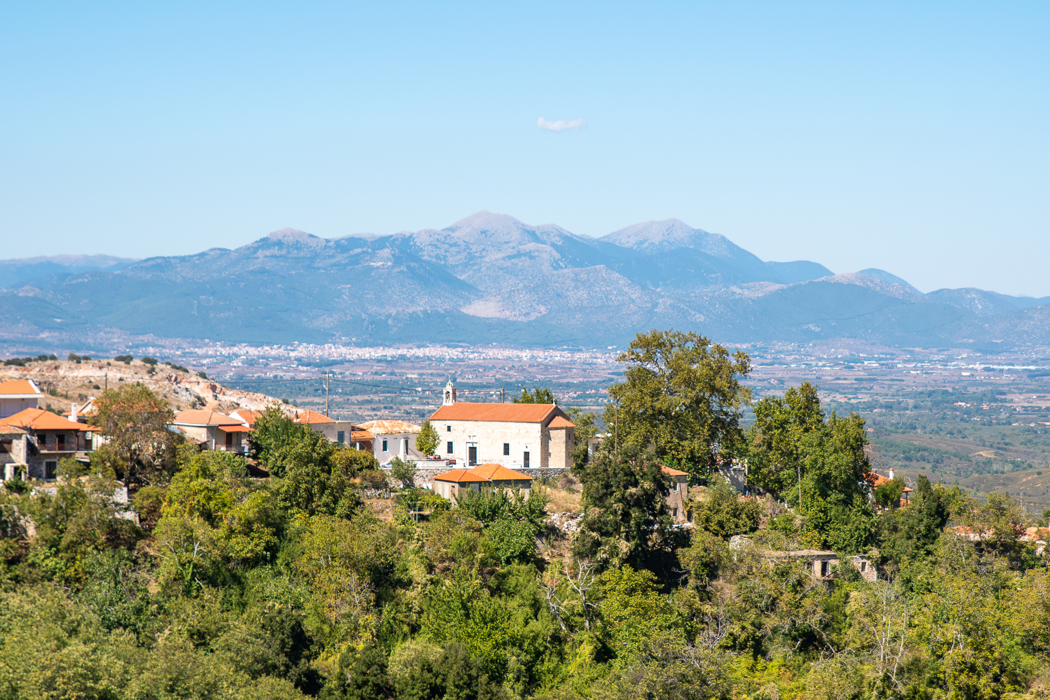 Church of Saint George in the village of Ano Doliana, Arcadia, Greece. The city of Tripoli and the plateau of Mantineia region are visible in the background.